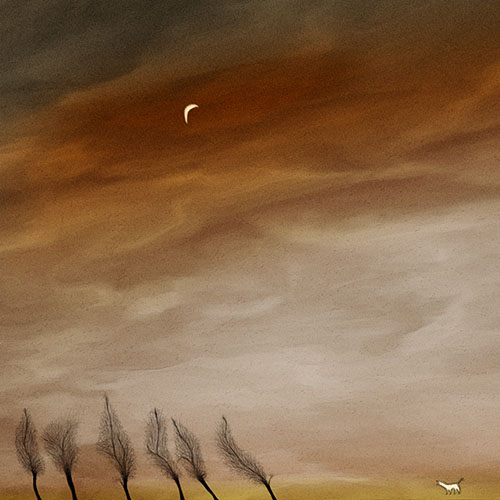 "The Moon Sees", giclée graphics by Nerva